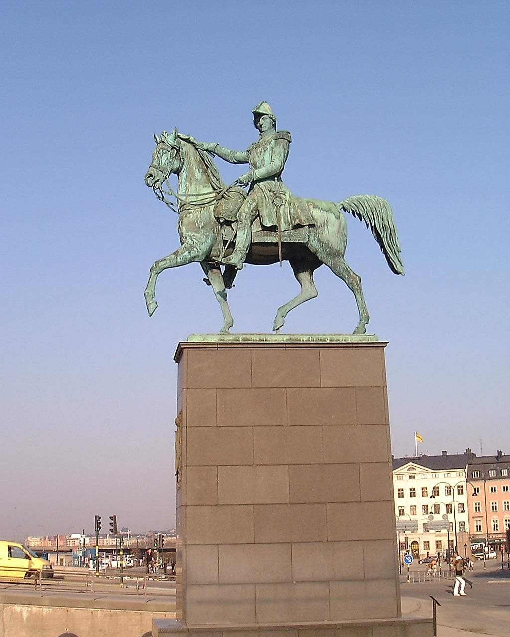 Equestrian statue of Charles XIV John of Sweden at Karl Johans Torg, Stockholm.